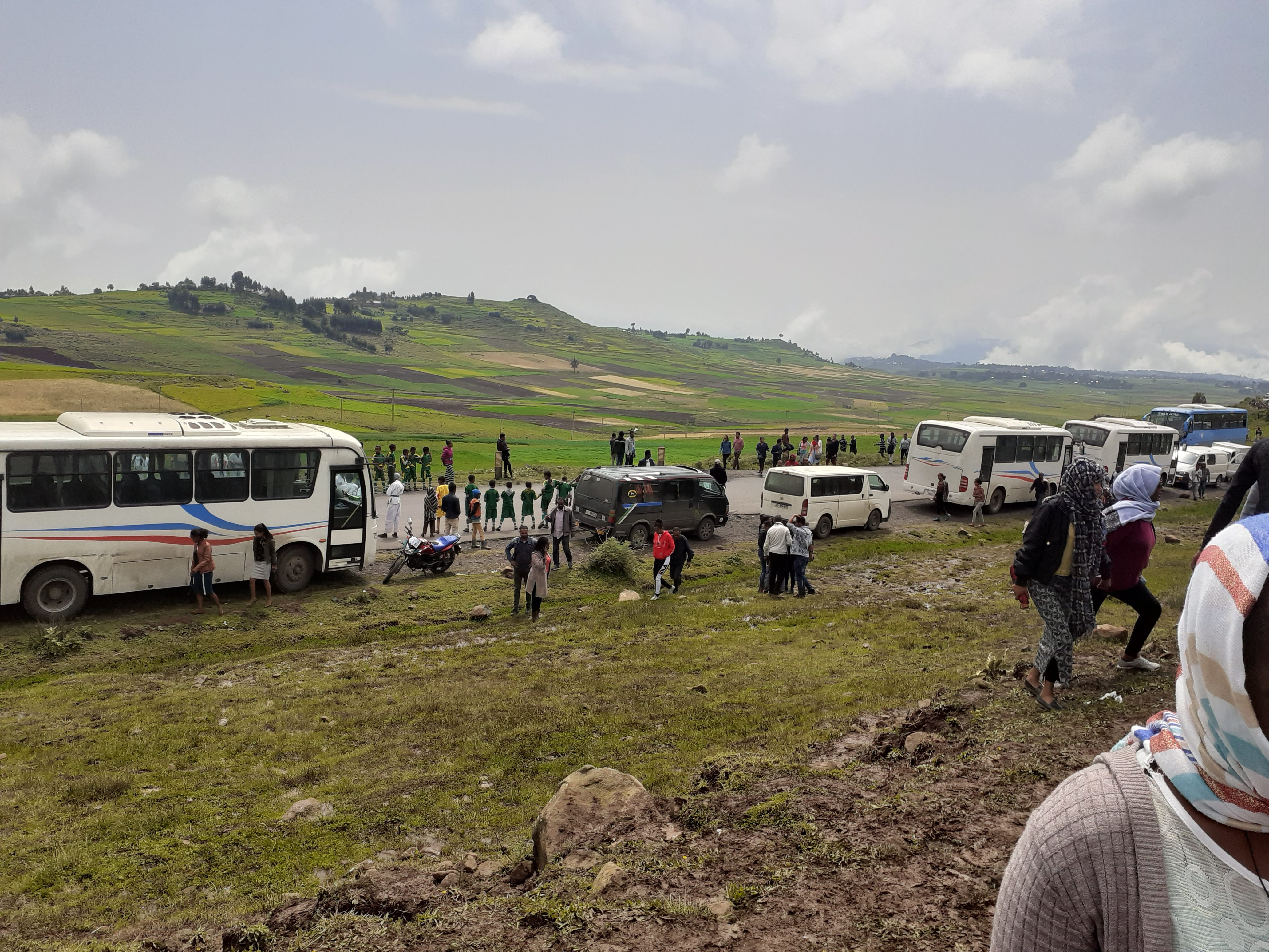 Some buses and vehicles used for transportation in Ethiopia. This is an image with the theme "Africa on the Move or Transport" from: Ethiopia